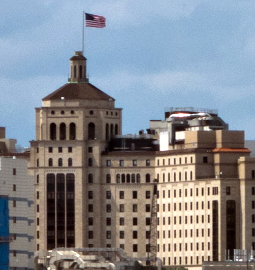 UPMC Presbyterian Hospital shot from Flagstaff Hill